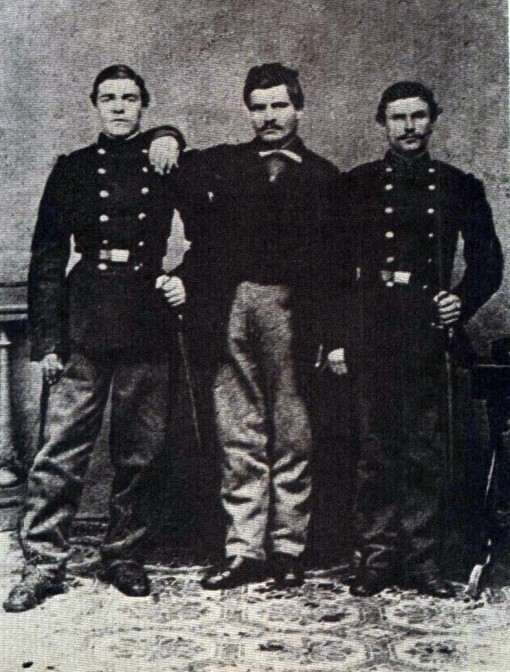 Vasil Levski, His Brother Hristo and Hristo Ivanov Golemiya in the II Legion in Beograd, 1867-68